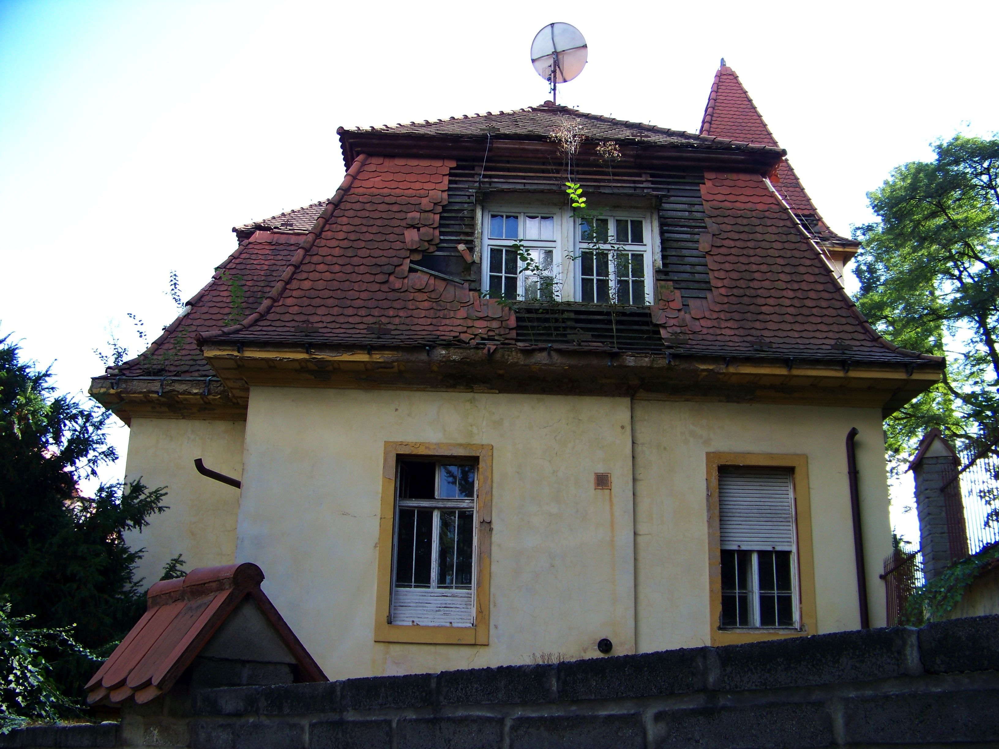 Prague-Zbraslav, Czech Republic. Bartoňova 630, a villa of František Storch.